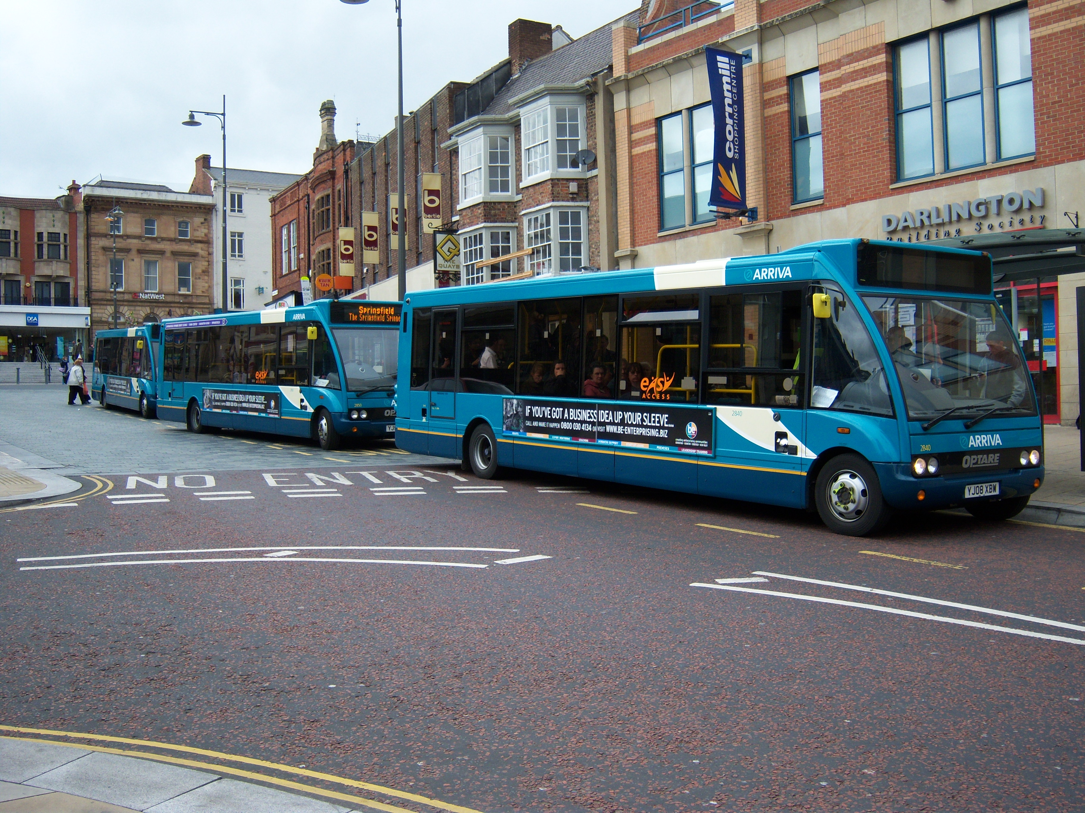 Three Arriva North East Optare Solo buses in Darlington. From left to right, the closest two are 2850 (YJ58 CBU) and 2840 (YJ08 XBW).